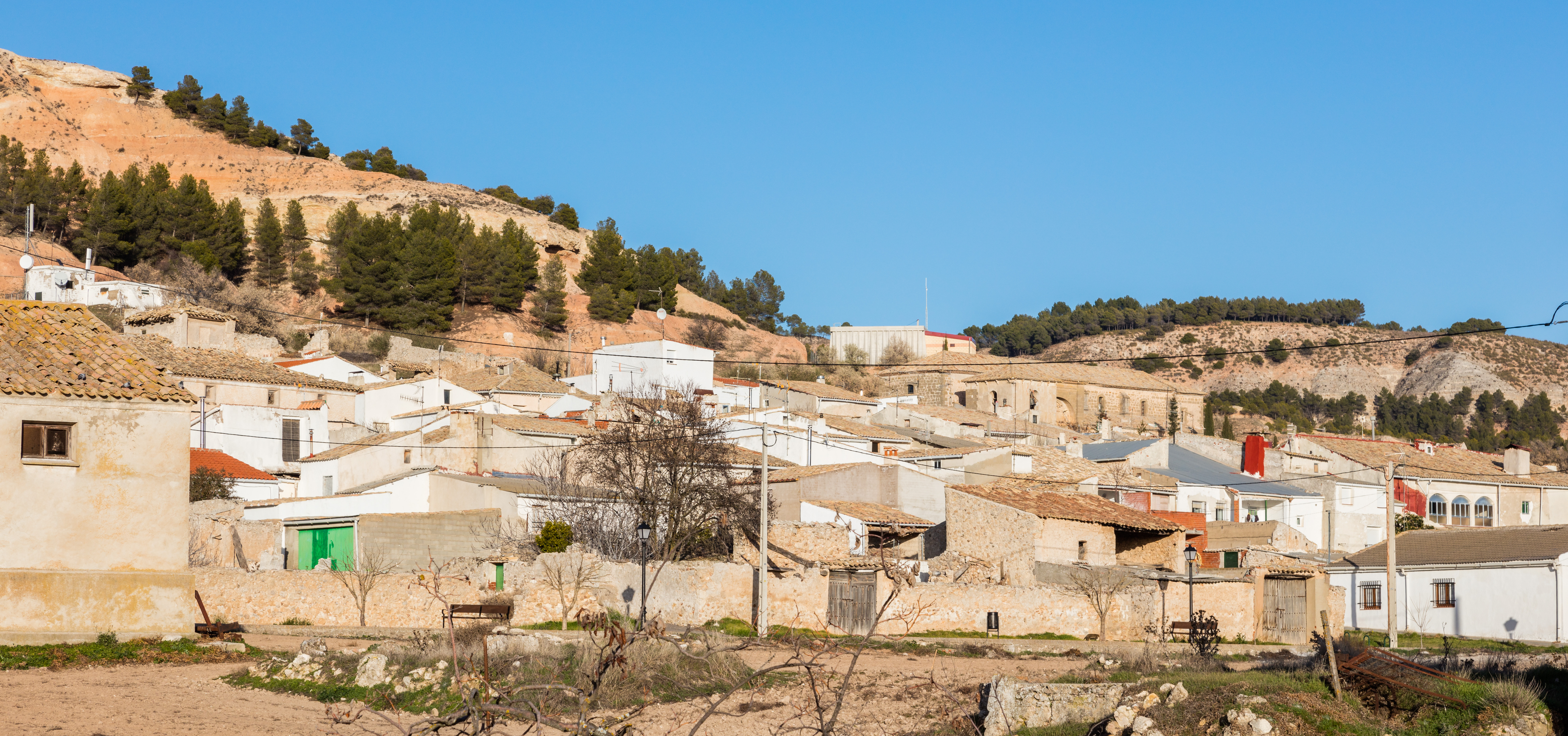 Gascueña, Cuenca, Spain